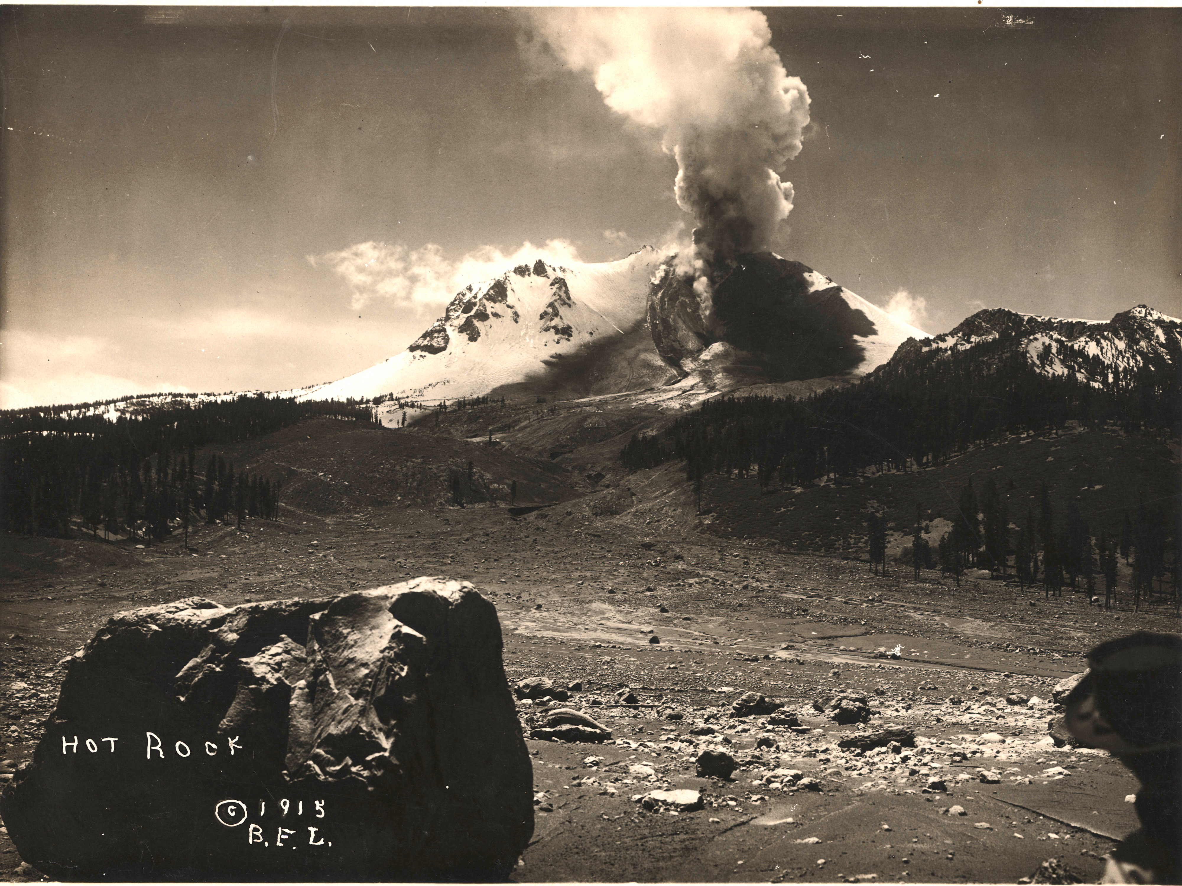 Steam issuing from summit of Lassen Peak from head of Lost Creek following mud flow. Large boulder or "Hot Rock" in foreground. Photograph taken a few hours prior to second major eruption and hot blast. B.F. Loomis May 22, 1915 Archive VI-PH-C1.63